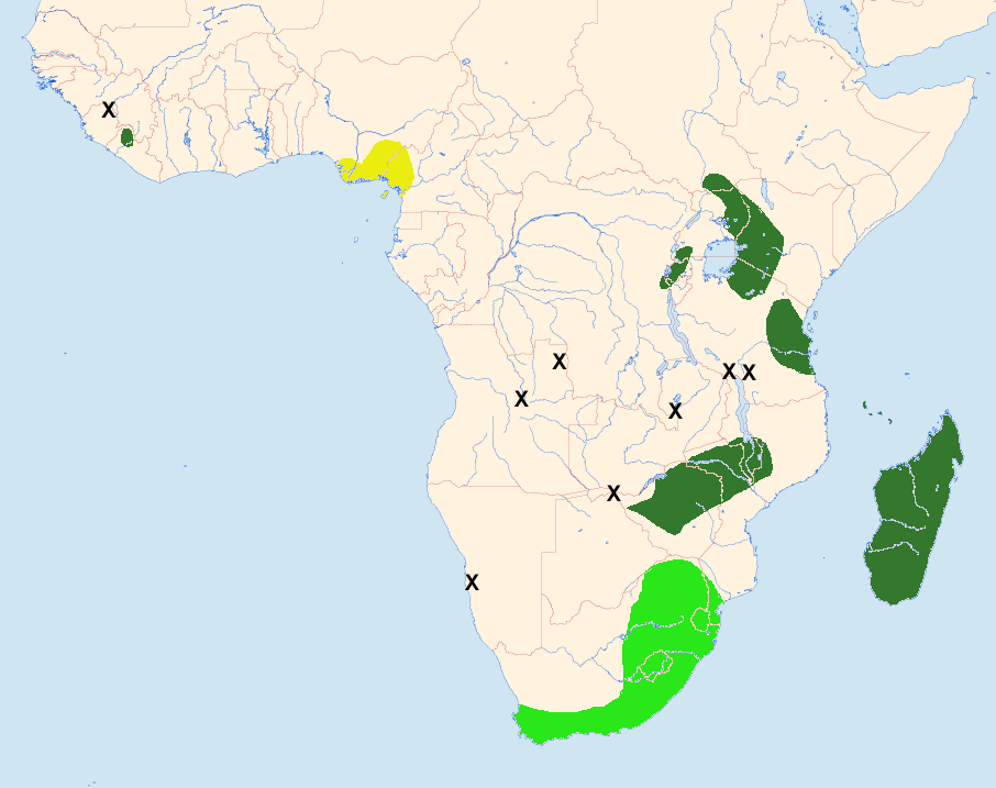 Distribution of Apus barbatus. Resident range: dark green; summer visitor: lighter green; migrant: yellow. Some additional recordings shown with crosses. Resident range of Apus barbatus & Apus (b.) balstoni Summer visitor range of Apus barbatus Migrant range of Apus barbatus Vagrant range of Apus barbatus Data Source: Phil Chantler, Gerald Driessens: A Guide to the Swifts and Tree Swifts of the World; Pica Press; Mountfield 2000; ISBN 1-873403-83-6